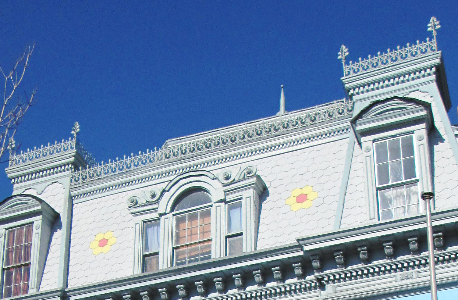 Close view of the cresting on the William B. Cronyn House.